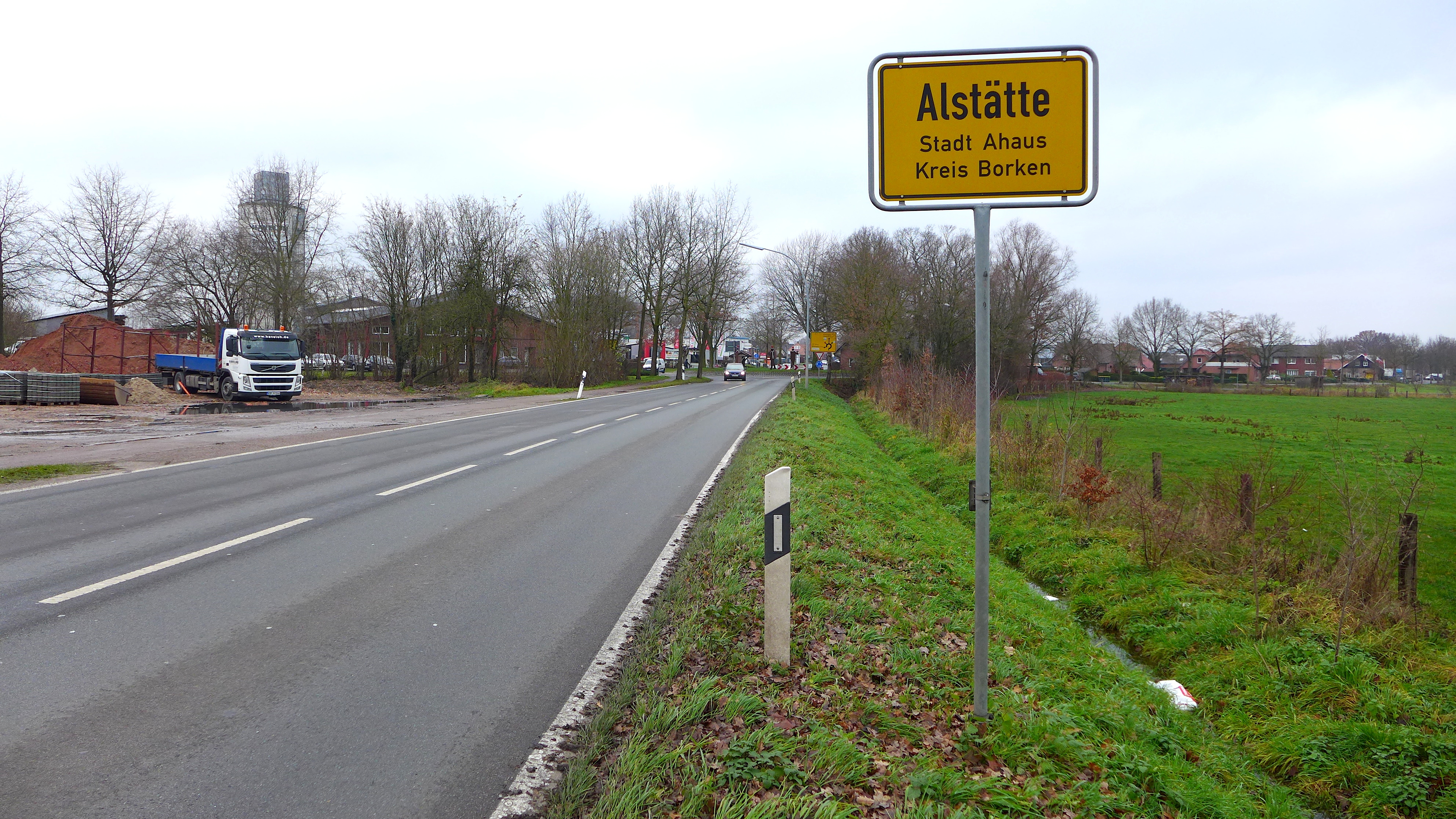 District road K 17. District Borken, North Rhine-Westphalia, Germany.